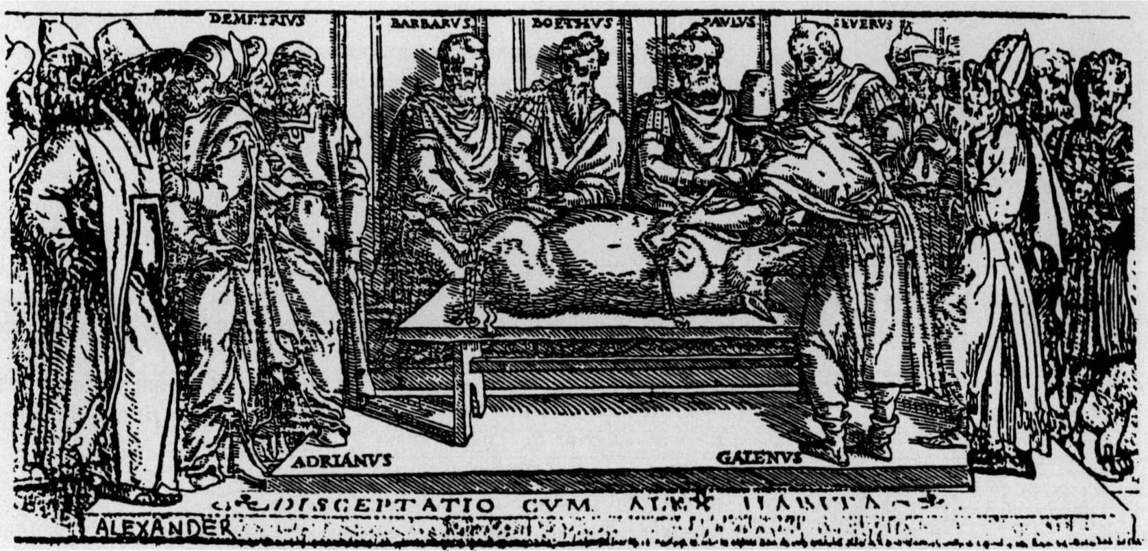 Image from the bottom panel of the title page to the 1541 Junta edition of Galen's Works. Depicts Galen demonstrating that the recurrent laryngeal nerves render an animal voiceless when cut.